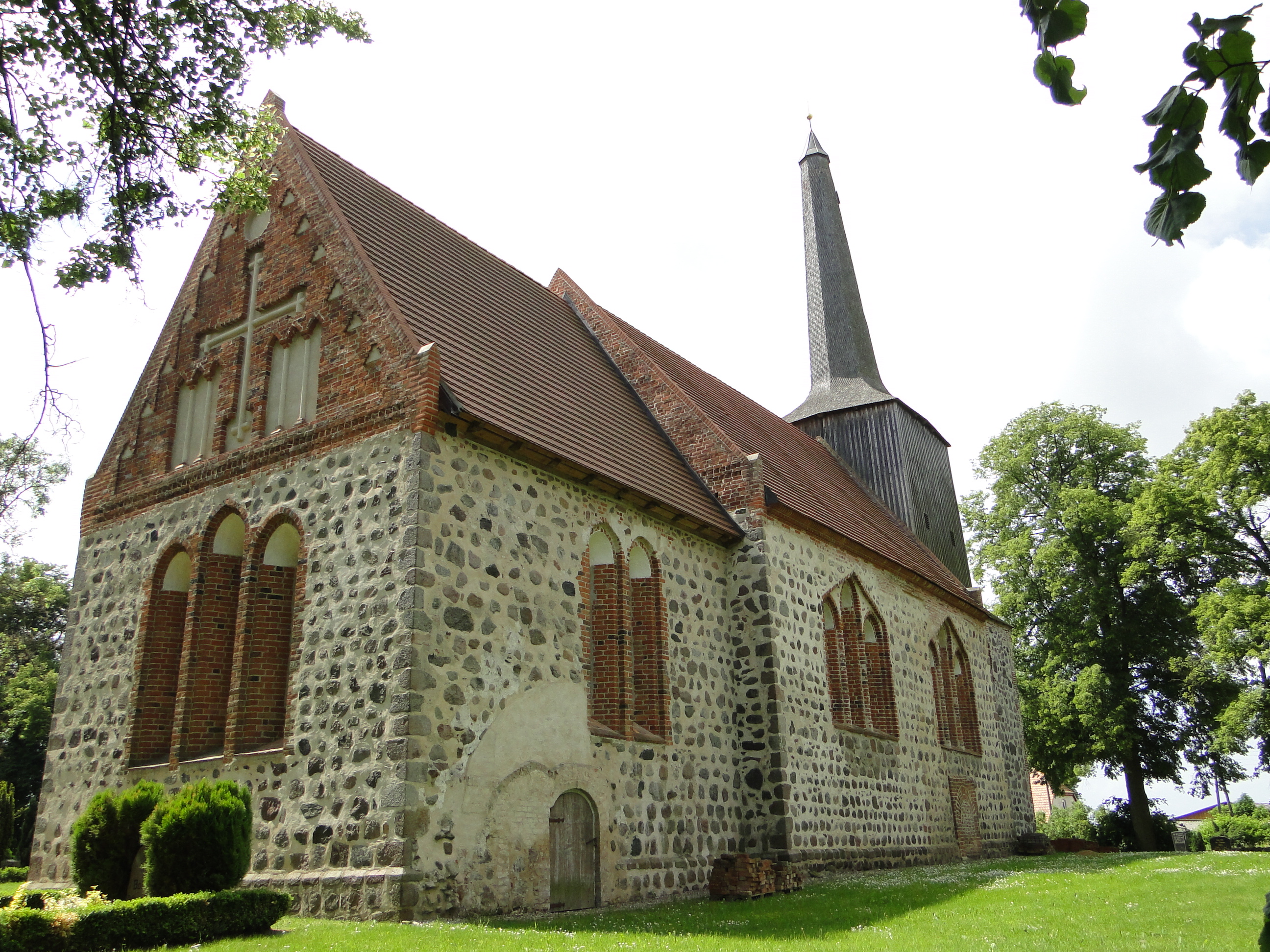 Church in Ruchow in the district Parchim, Mecklenburg-Vorpommern, Germany